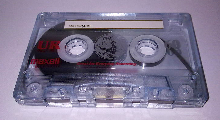 Maxell UR audio cassette made by Saehan in South Korea (identified by their trademark embossed design of the label area, and a tiny label sticker). This, last, generation of the UR was made by scores of second-tier plants - Maxell's own where shut down years ago